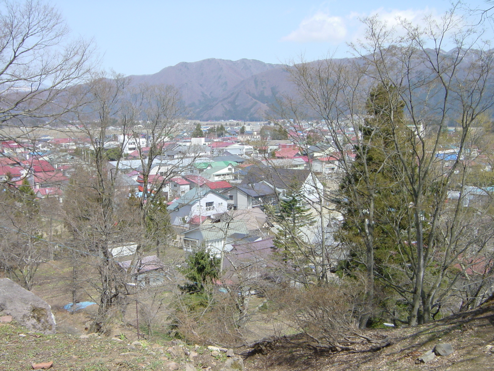 View of Inawashiro from the castle (Fukushima, Japan)